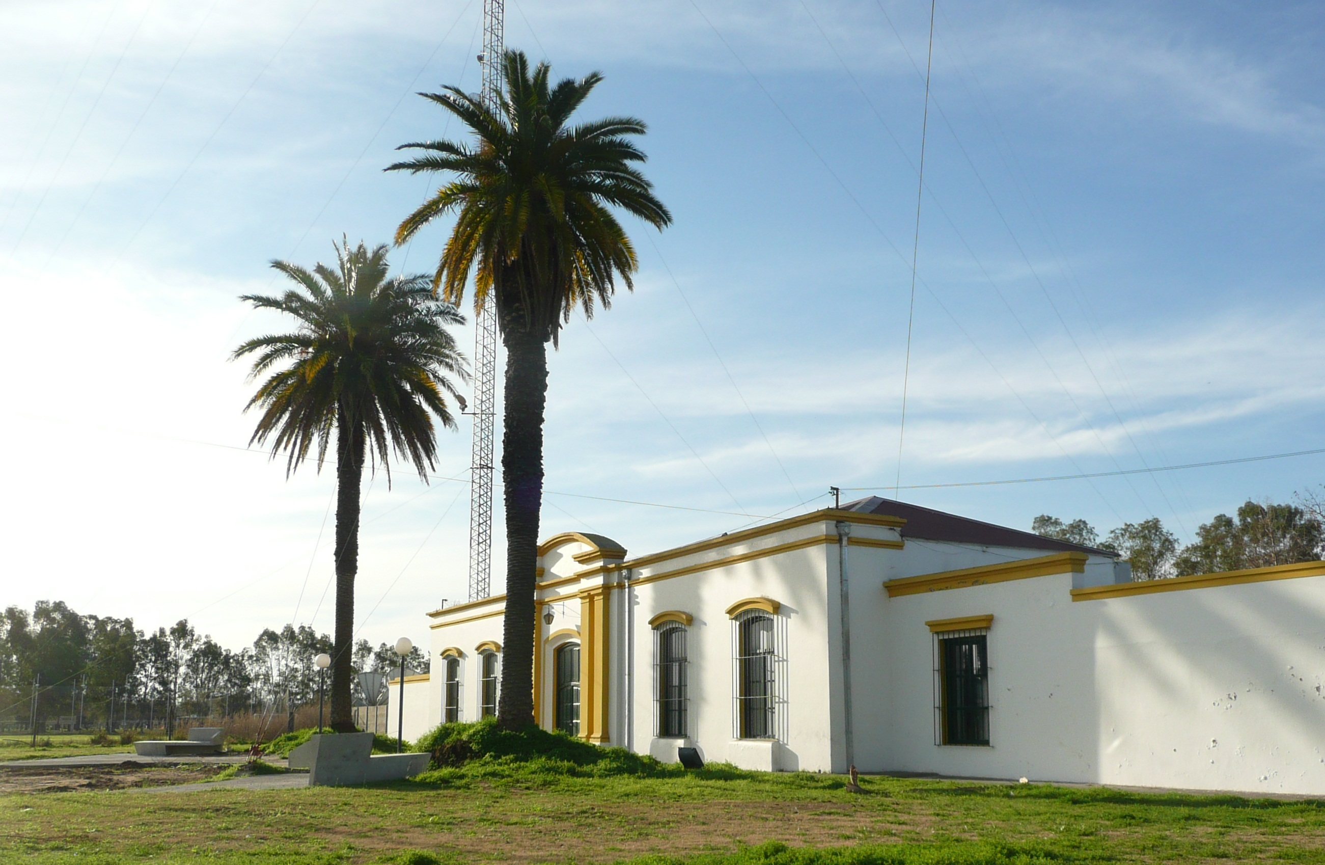 Trenque Lauquen town, Buenos Aires province, Argentina.